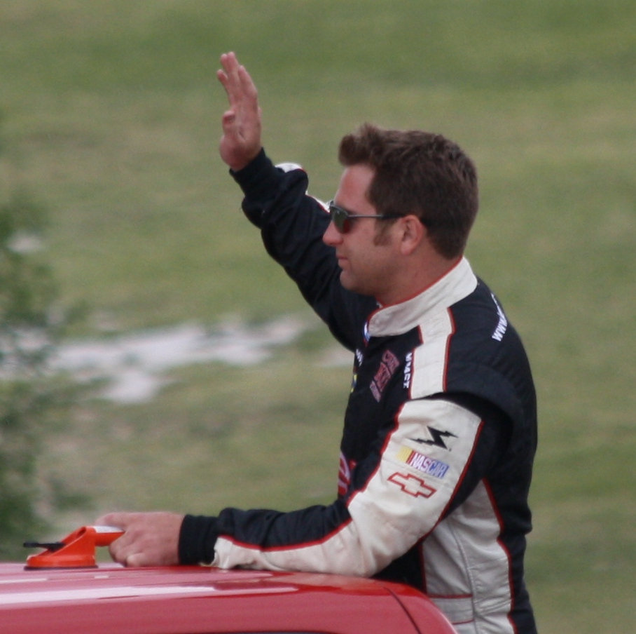 NASCAR driver Chase Miller during driver's introductions at the 2012 Sargento 200 Nationwide Series race at Road America.